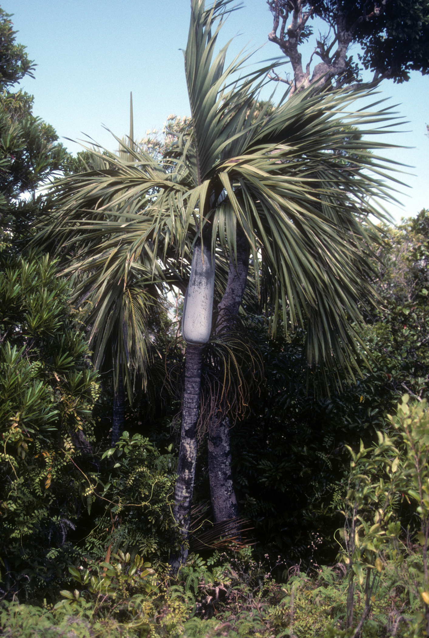 Cyphokentia cerifera, Col d'Amos, New Caledonia. Oct 2000. Formerly called Moratia cerifera.